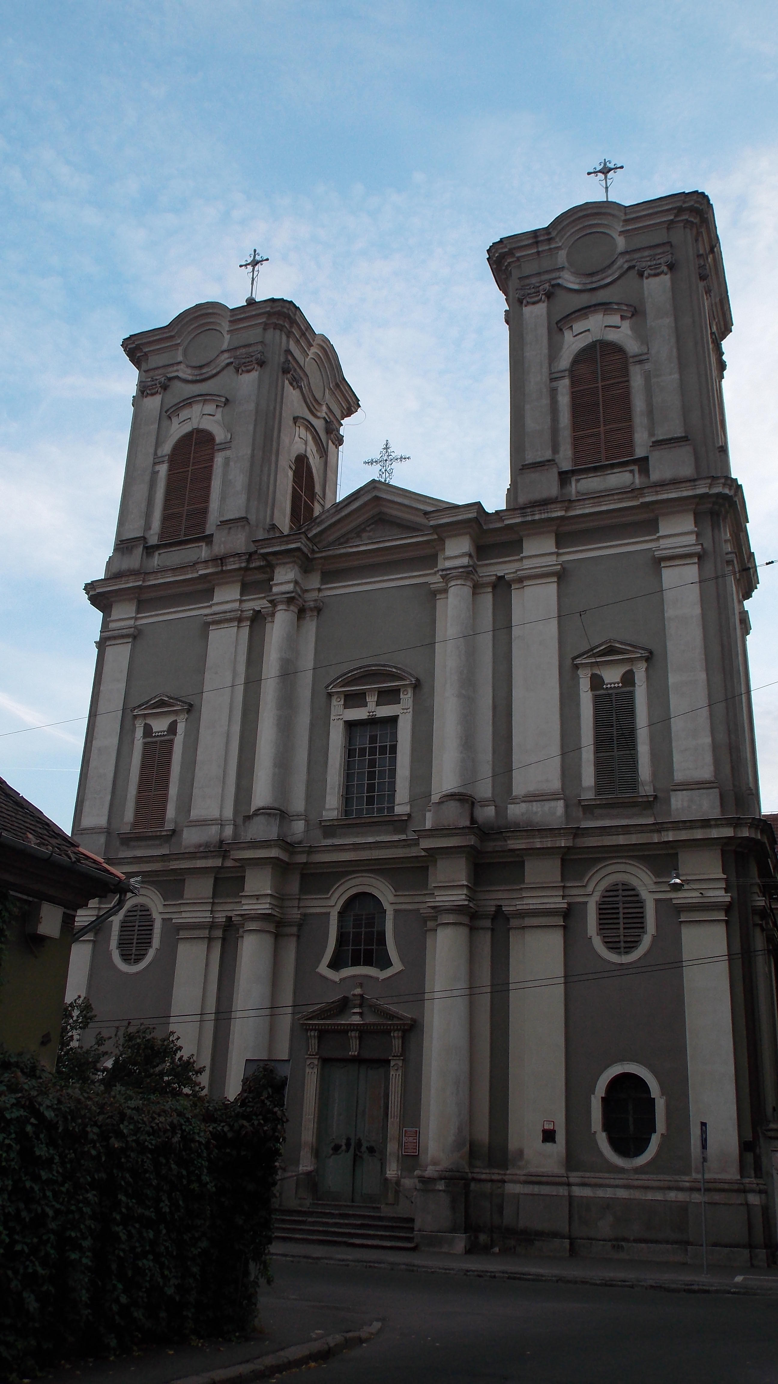 The former Premonastrensis Monastery's Church (Roman Catholic) - Oradea